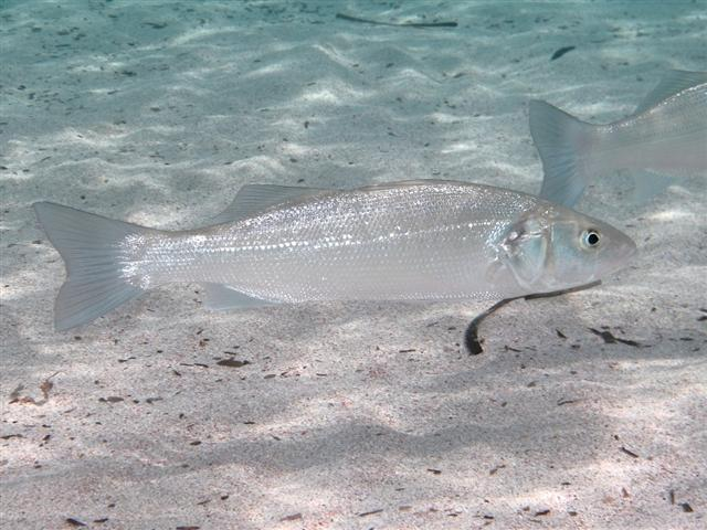 Dicentrarchus labrax photographed in Minorca, Spain.